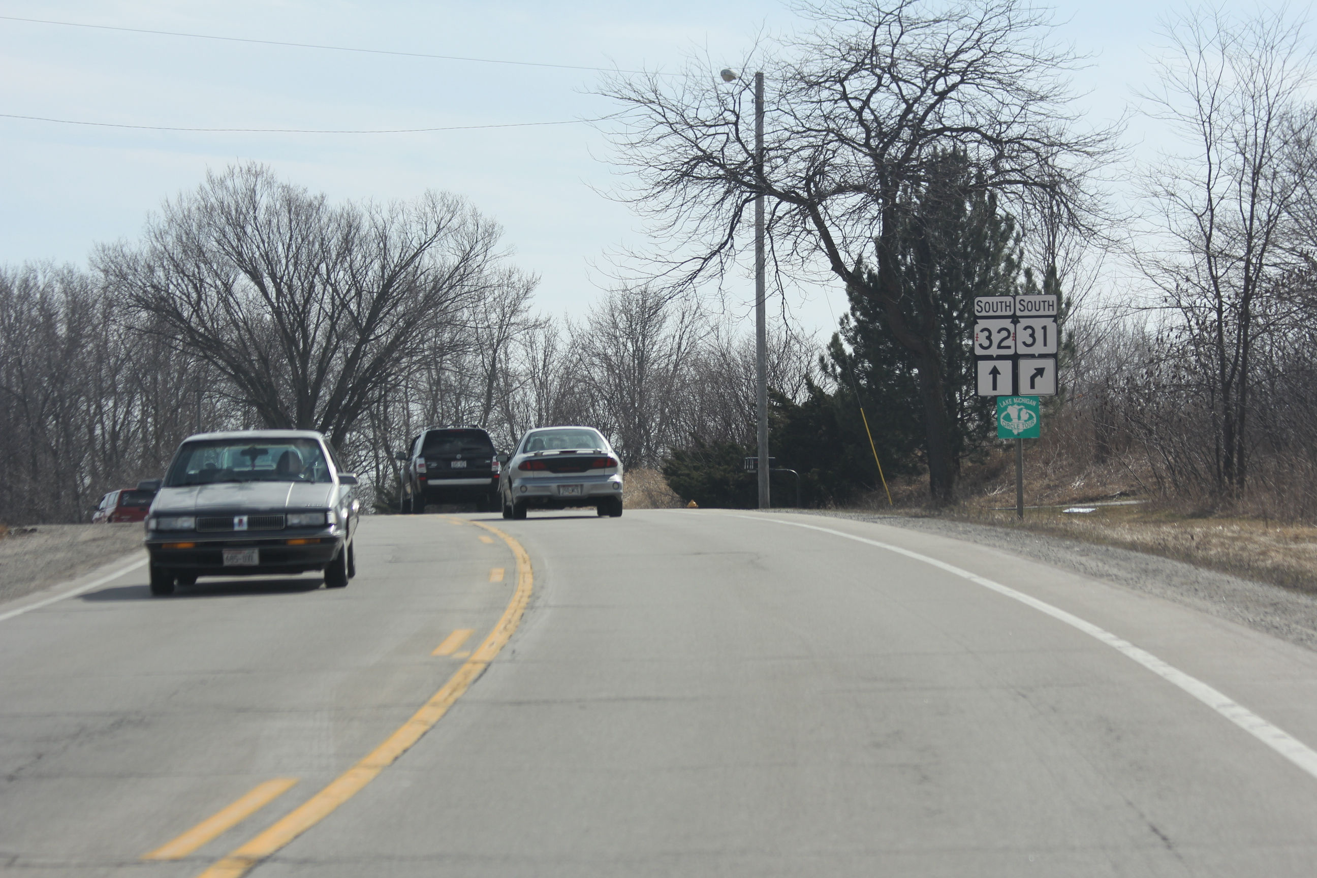 The Lake Michigan Circle Tour in Racine County in the concurrency of WIS 31 and WIS 32.